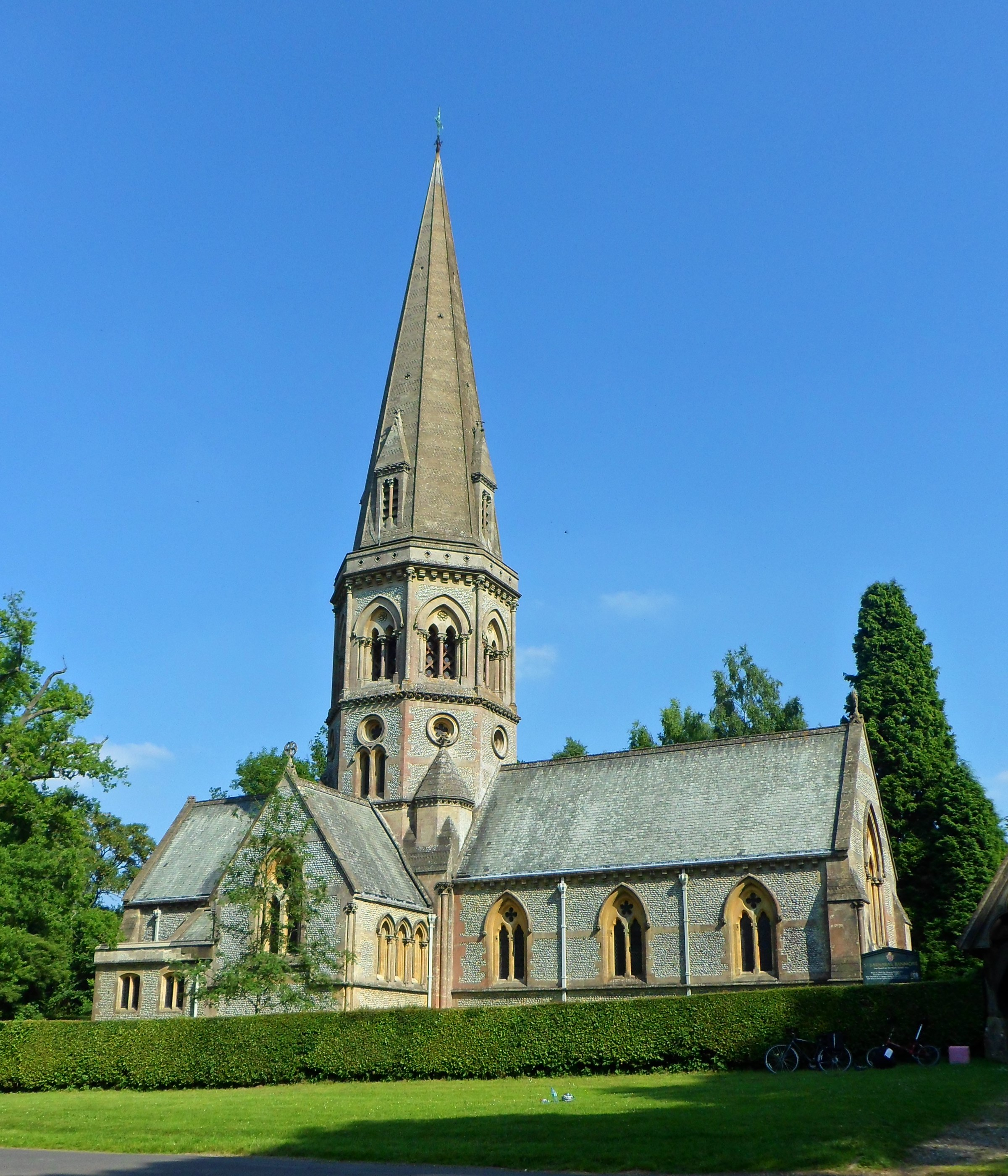 St Barnabas' Church, Ranmore Common Road, Ranmore Common, Mole Valley District, Surrey, England. Built in Great Bookham parish in 1859 to serve the Denbies Estate. Listed at Grade II* by English Heritage (NHLE Code 1189879)